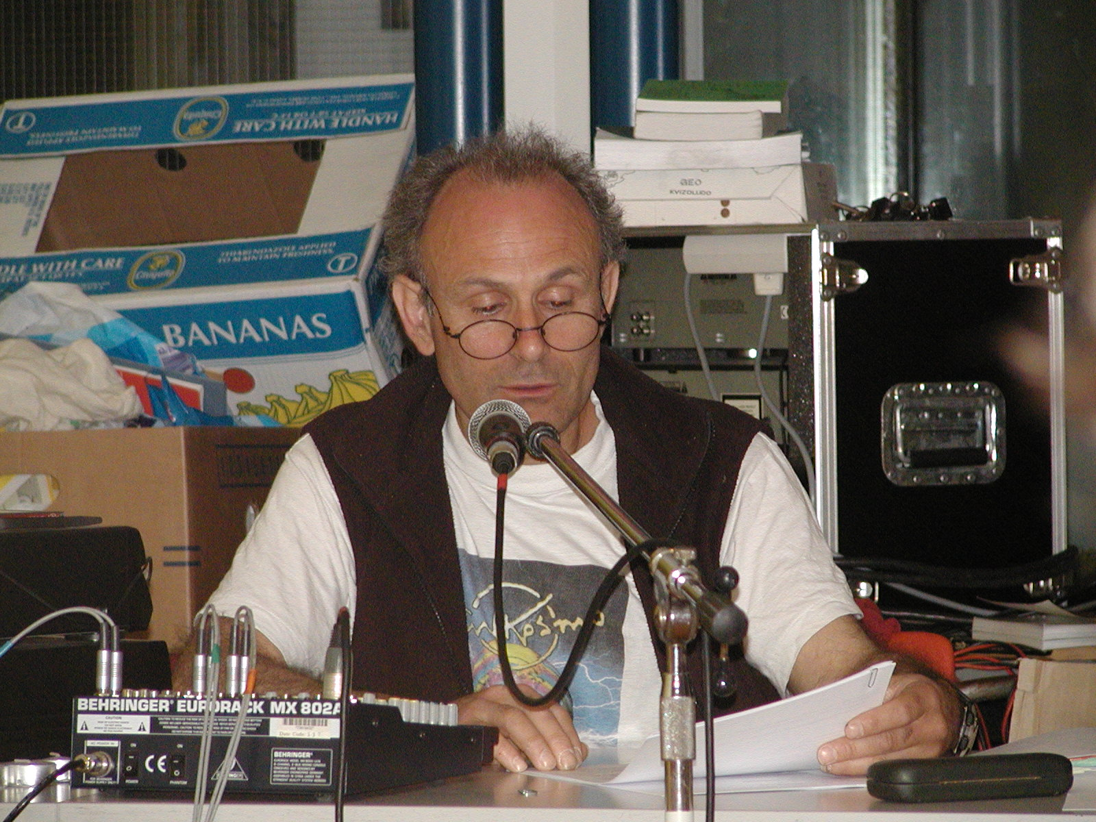 the founder of the Esperanto music shop Vinilkomso Floreal MARTORELL